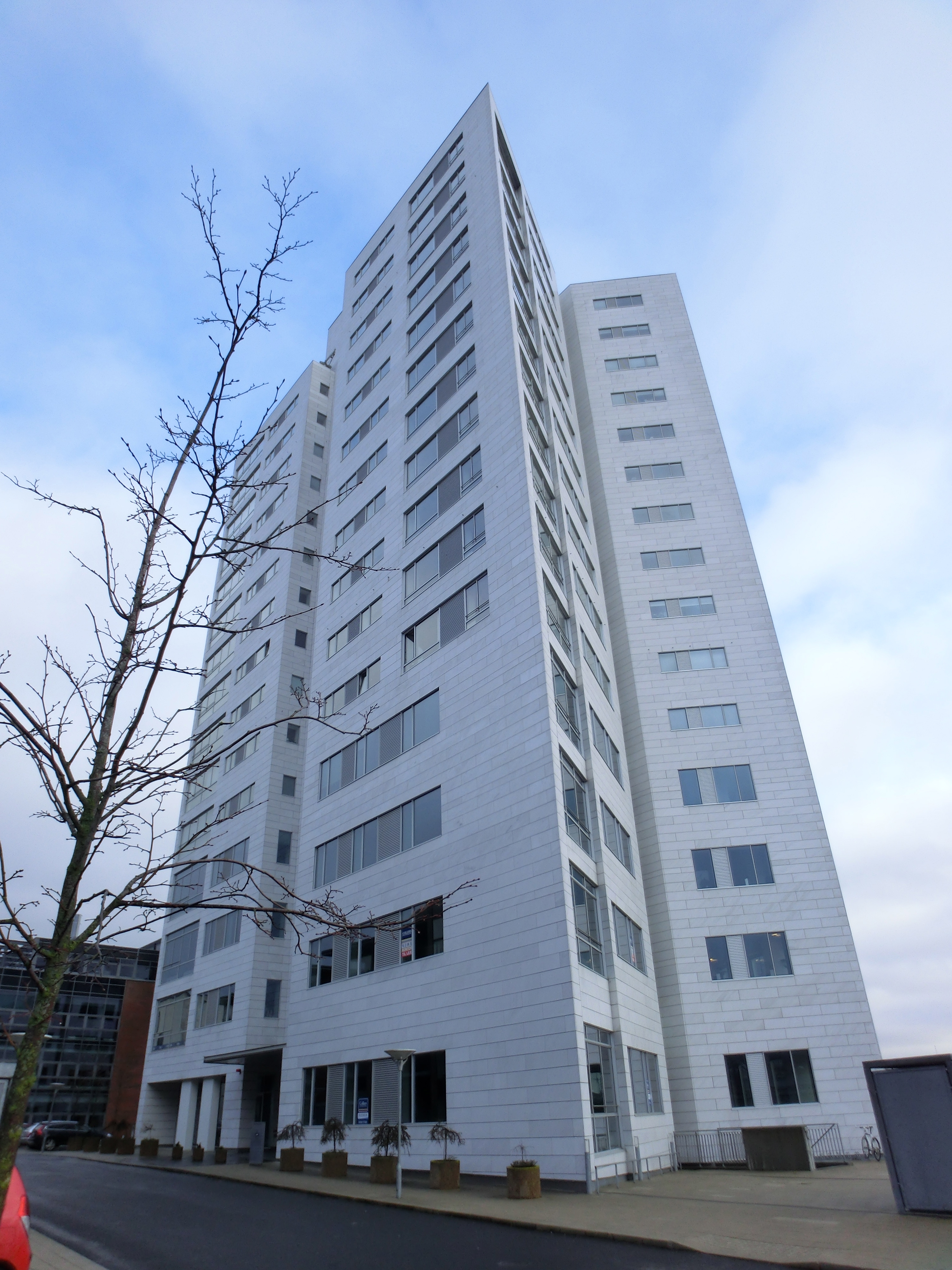 The building "Den Hvide Facet" in the town "Vejle". The town is located in South-Central Jutland, Denmark.